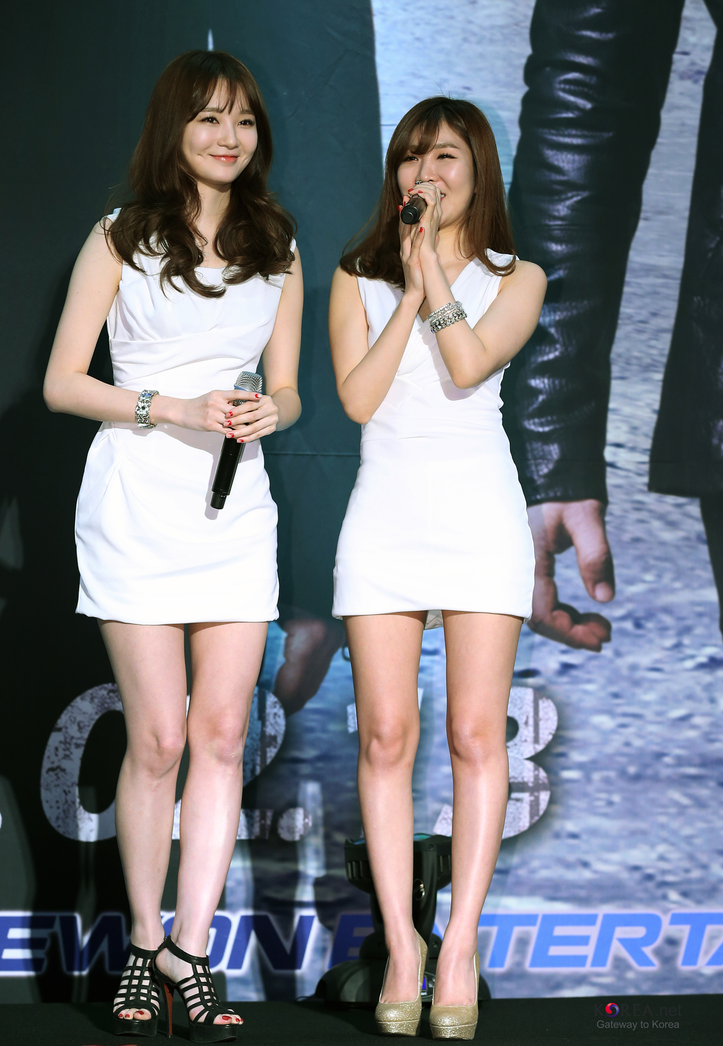 K-Drama 'IRIS 2' Press Conference. Singer Davichi